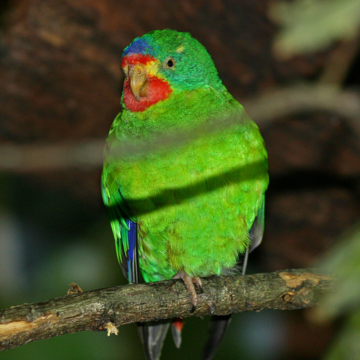 A female Swift Parrot in captivity.